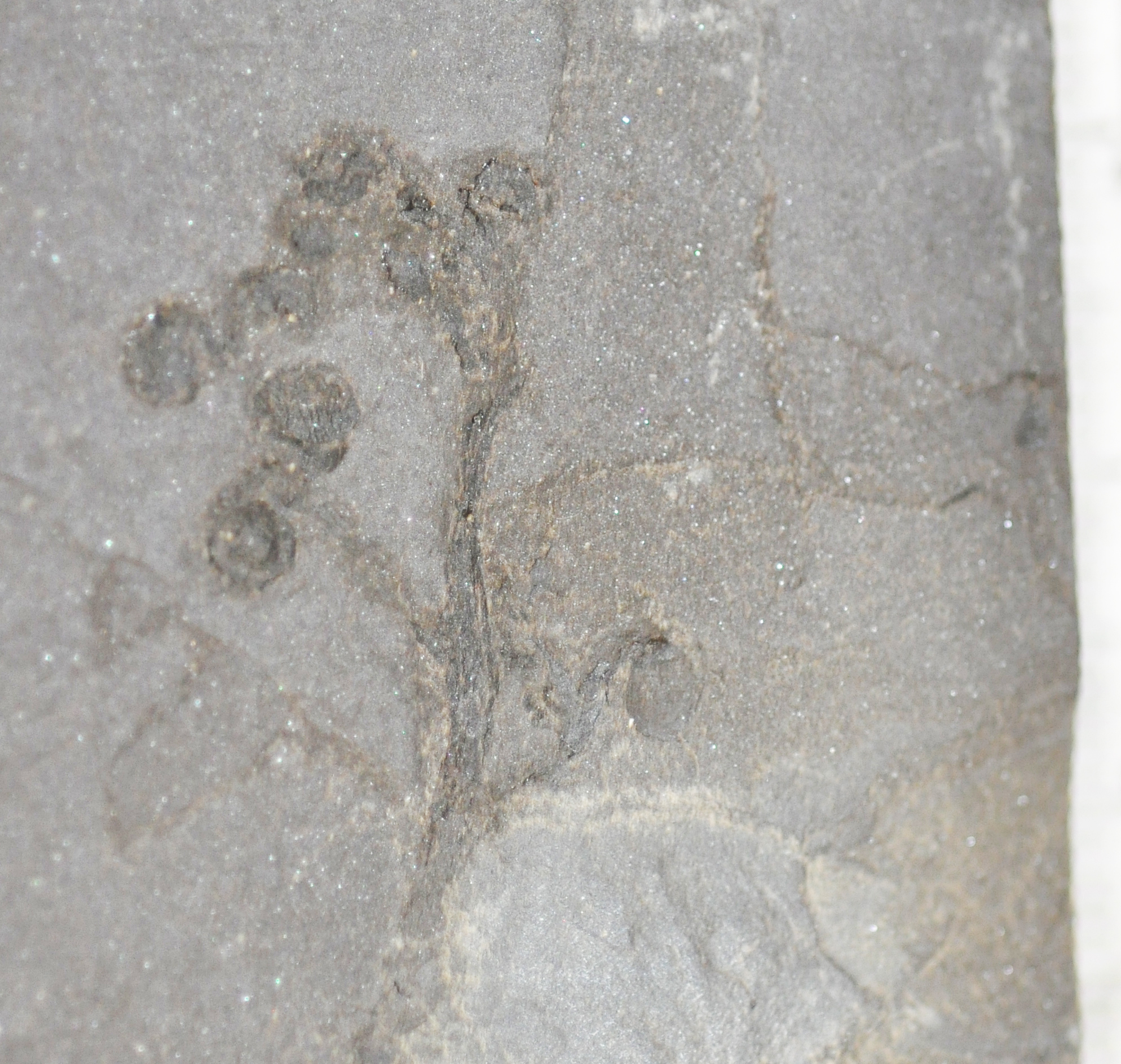 Megasporophyll of extinct seed fern from the Umkomaas locality of South Africa Condon Collection number F108625